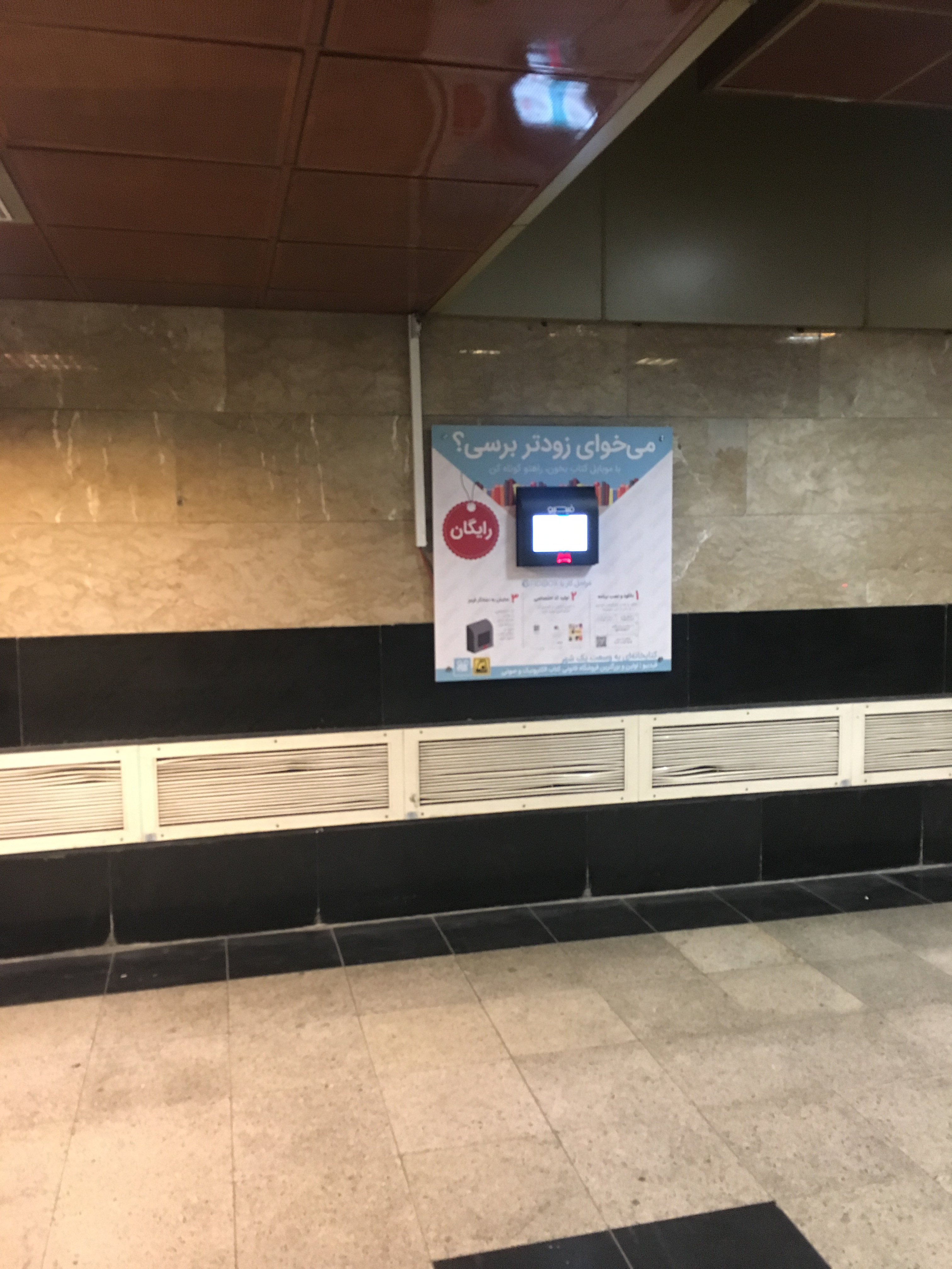 fidibox installed in tehran subway station wall